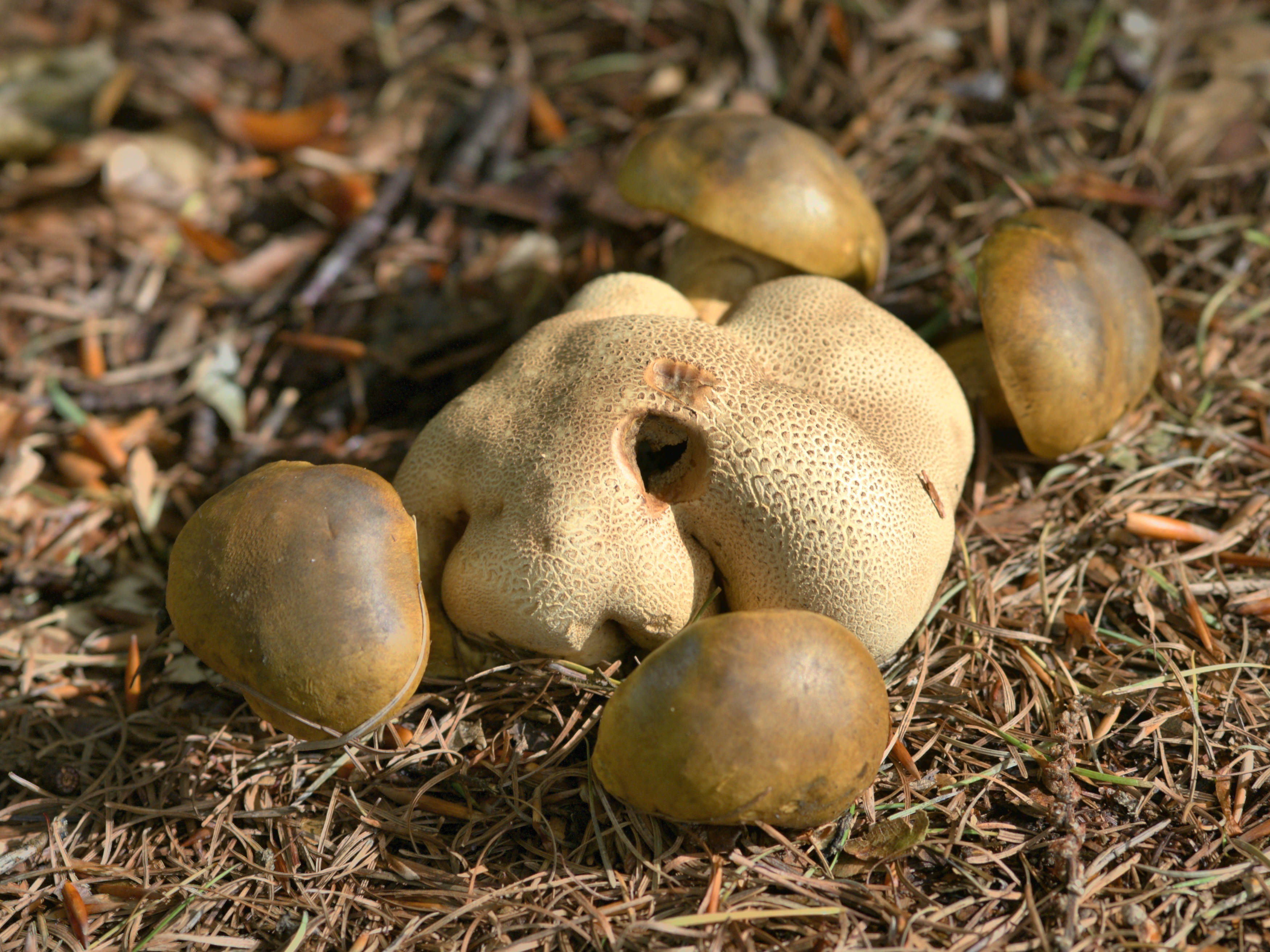 Parasitic Bolete on Common Earth ball at Domain Beisbroek, Brugge, Belgium